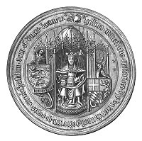 The royal seal of Christopher of Bavaria.